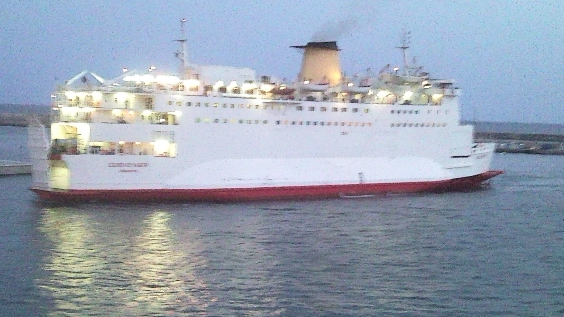 Ferry Eurovoyager arriving in the port of Almeria